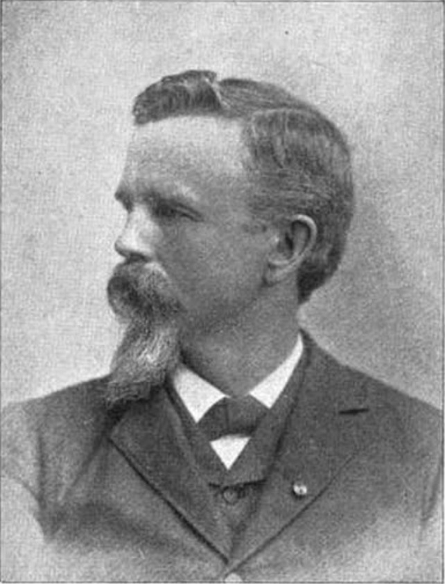 Michigan Justice Allen Benton Morse, The Green Bag, Vol. 2, p. 392